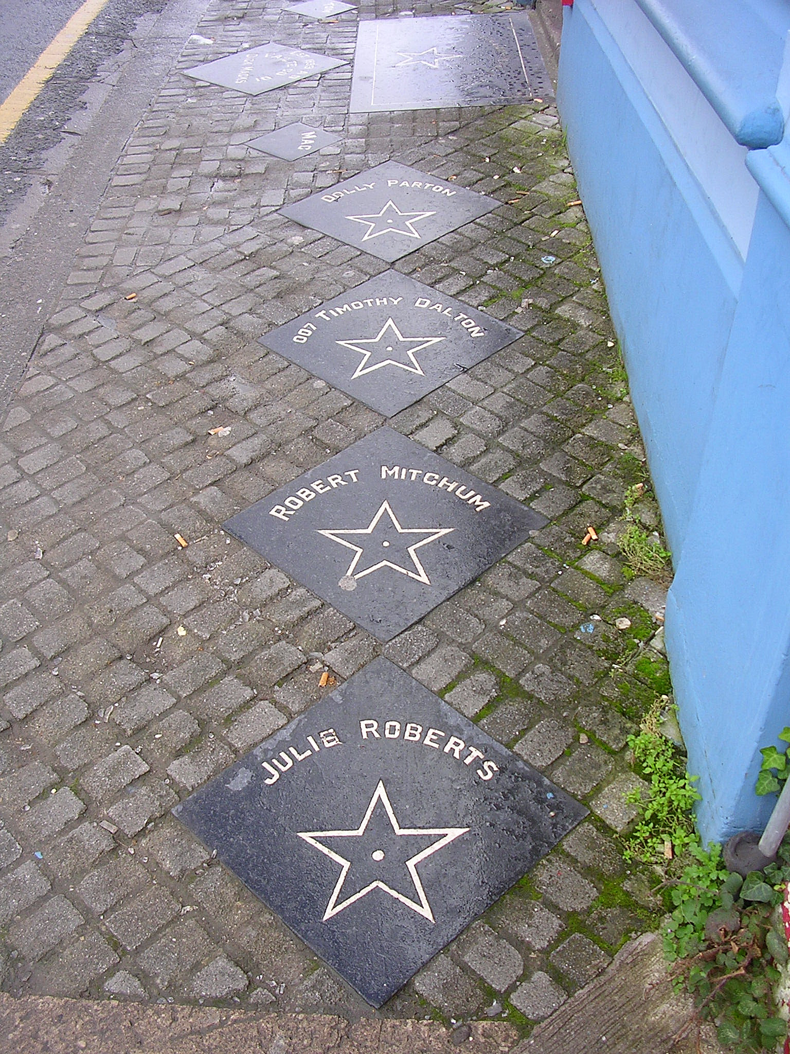 Photo of a sidewalk in Dingle, Ireland, made to look like the celebrity Walk of Fame in Hollywood.